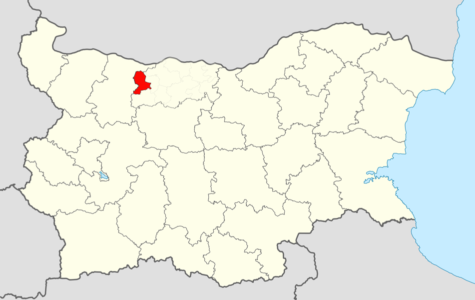 Location map of Knezha Municipality within Pleven Province, Bulgaria. Equirectangular projection, N/S stretching 130 %. Geographic limits of the map: N: 44.4° N S: 41.1° N W: 22.1° E E: 28.9° E